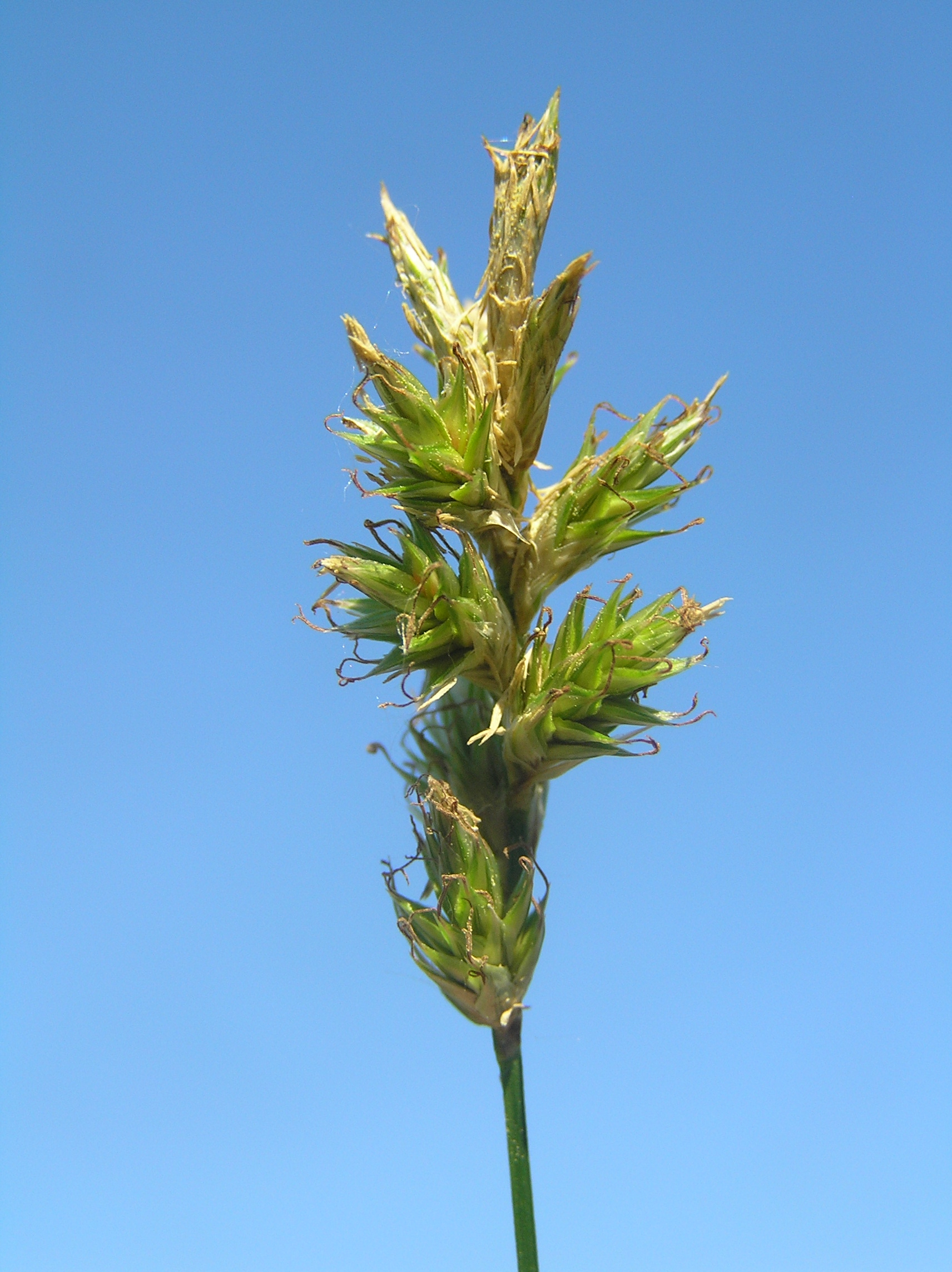 Carex pseudobrizoides, Přesyp u Malolánského near Pardubice, Czech Republic